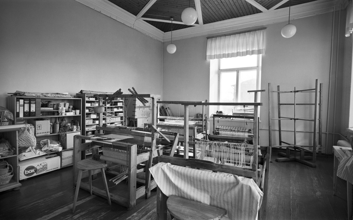 Weaving classroom in Sokeainkoulu (School for the blind) on Ensi linja, Helsinki, Finland